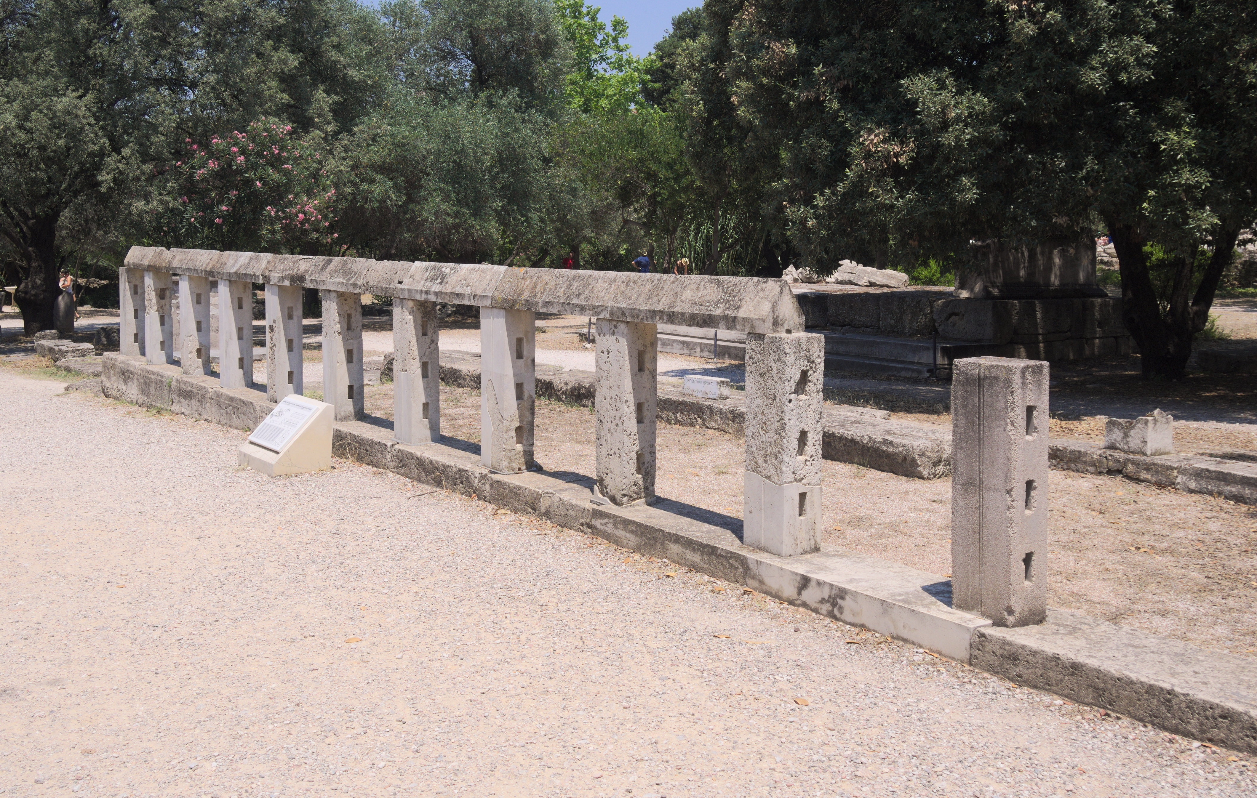 The monument of the Eponymous Heroes, within the ancient Agora of Athens.